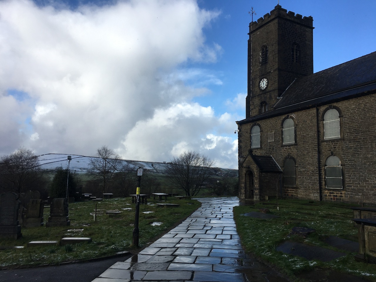 Landscape view of St. James' Church, Haslingden